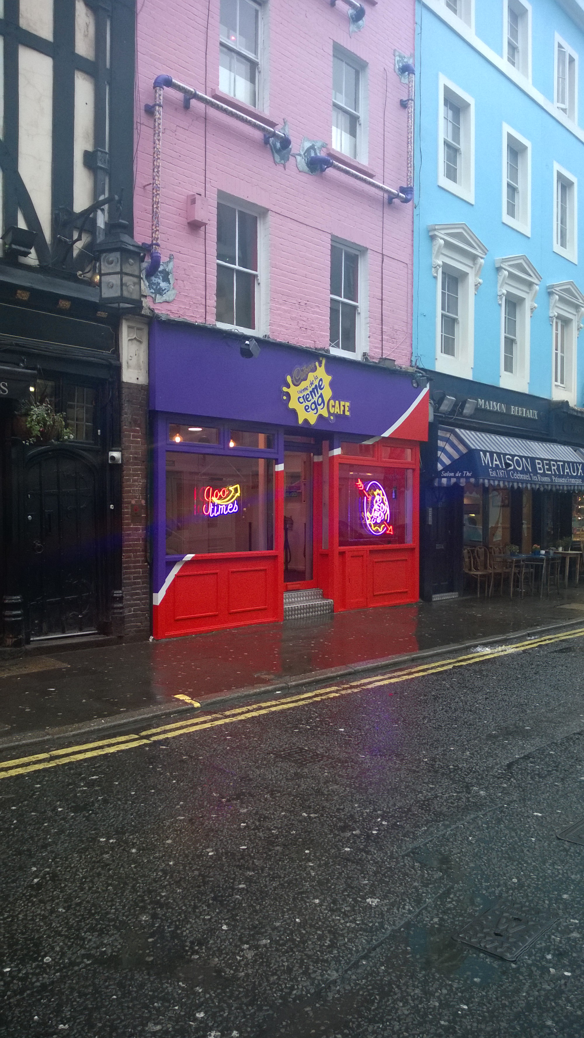 Image of the Cadbury Crème de la Creme Egg pop-up Café in Soho, London